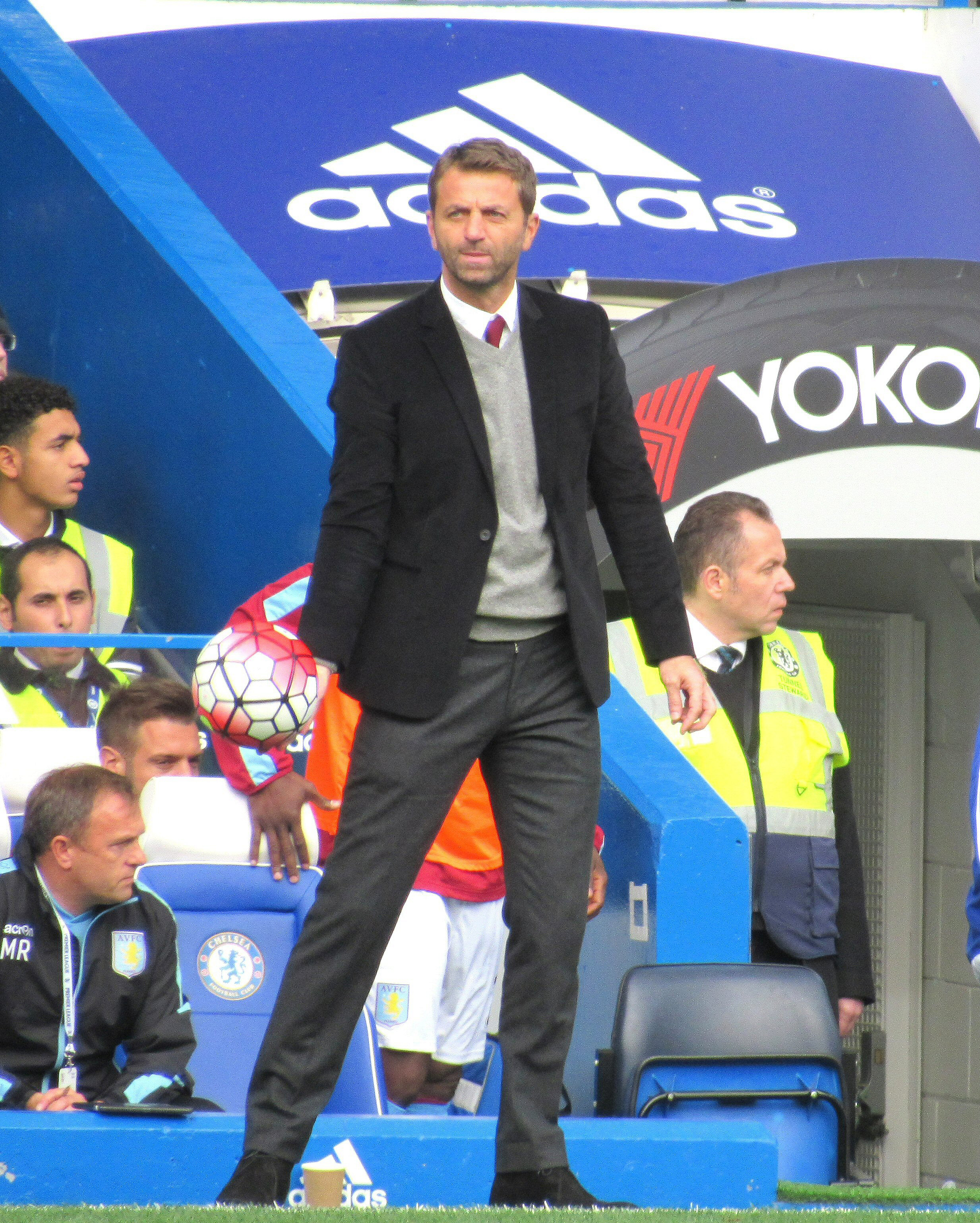 Tim Sherwood away to Chelsea October 2015